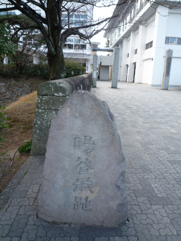 Hiji Castle ruins inscription